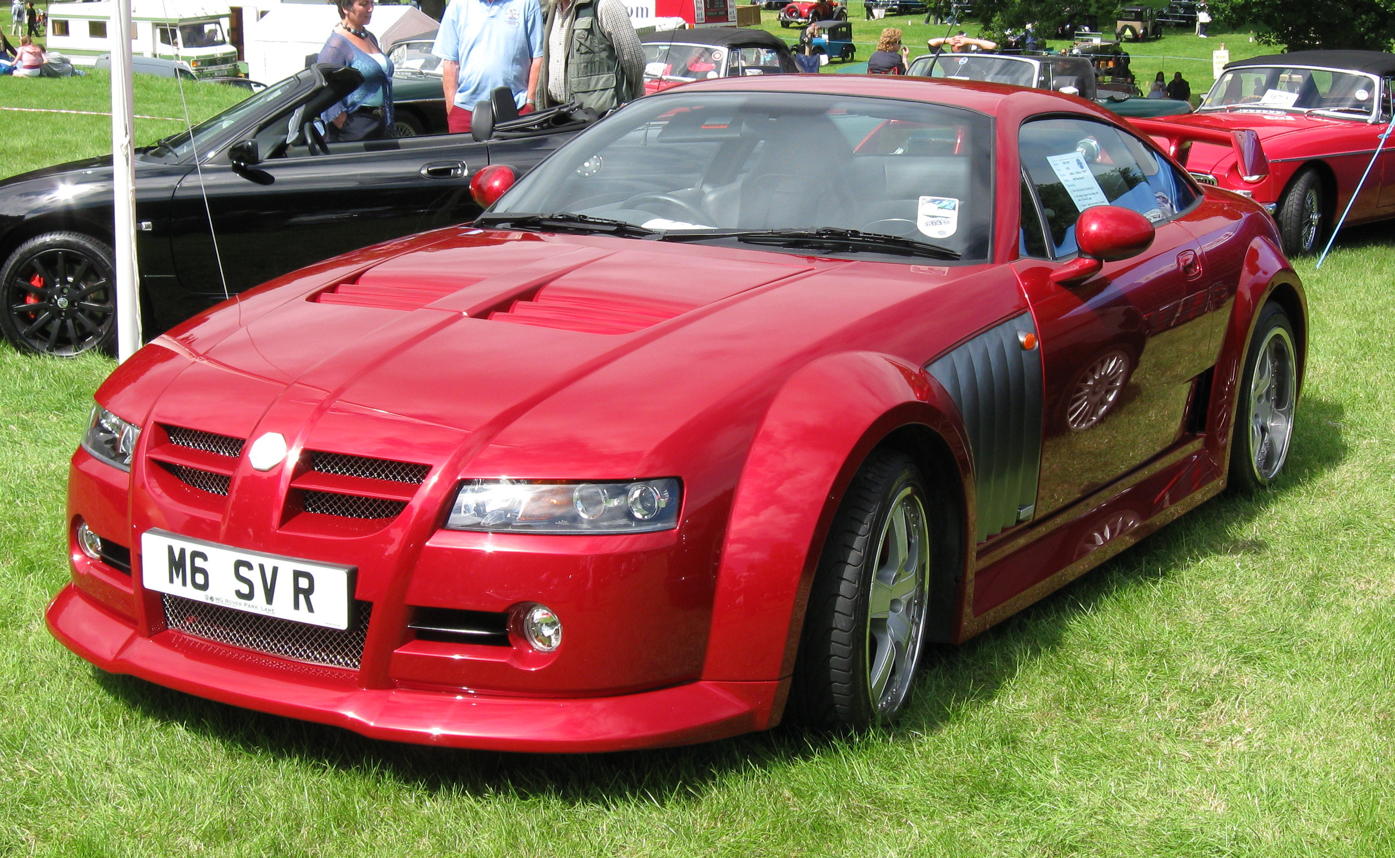 MG XPower SV-R at the SVVC Extravaganza, Glamis Castle, 2009